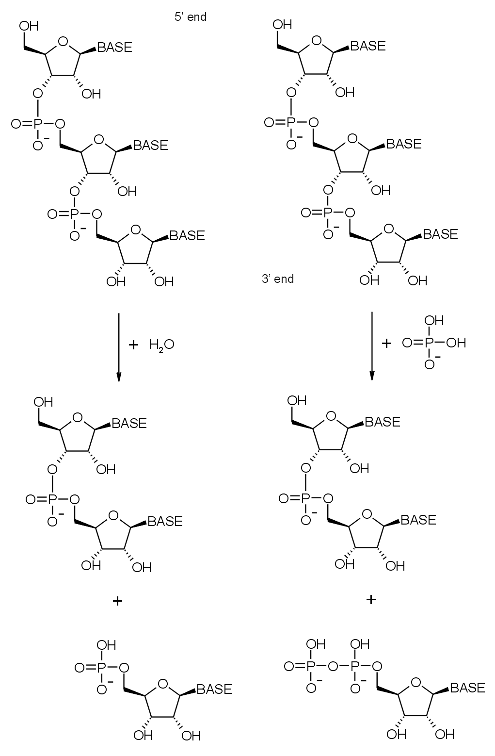 Reaction diagram for hydrolytic (left) and phosphorolytic (right) 3'-5' RNA degradation.